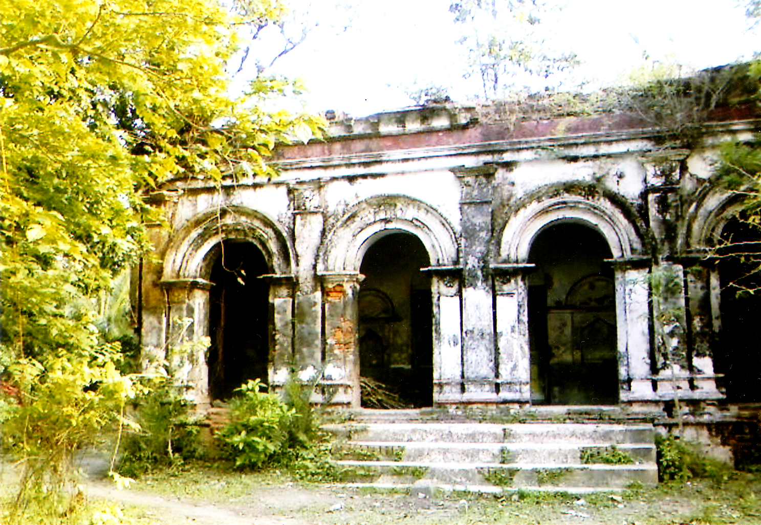 Residence of a Bengali revolutionary of the Indian independence movement from the Nawabganj Upazila, Dhaka in present-day Bangladesh, A.K. Golam Jilani. The house is located at Algichor village of the Nawabganj Upazila of the Dhaka district of Bangladesh.